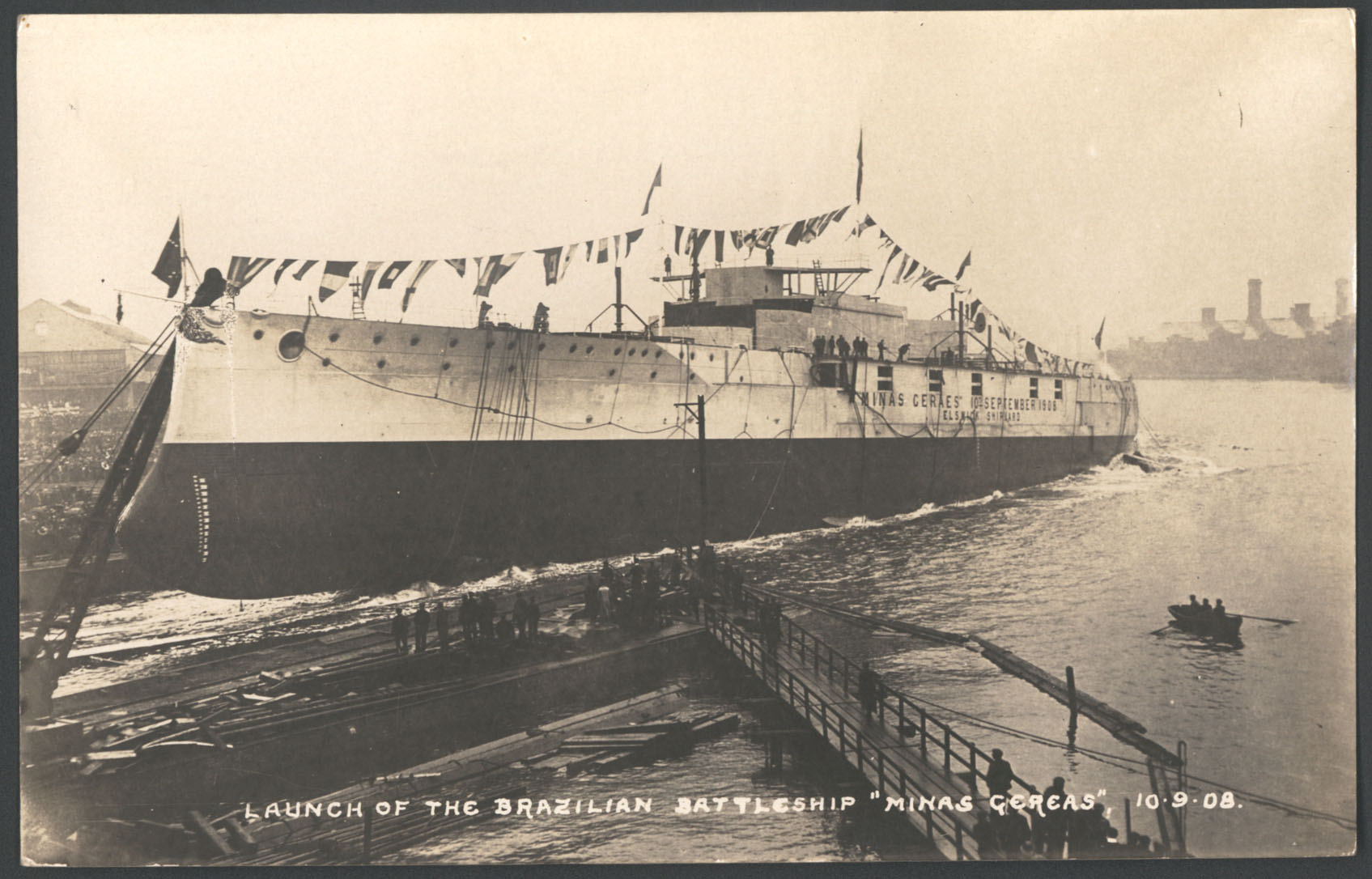 This shows the launch of the Brazilian battleship Minas Geraes on 10 September 1908.